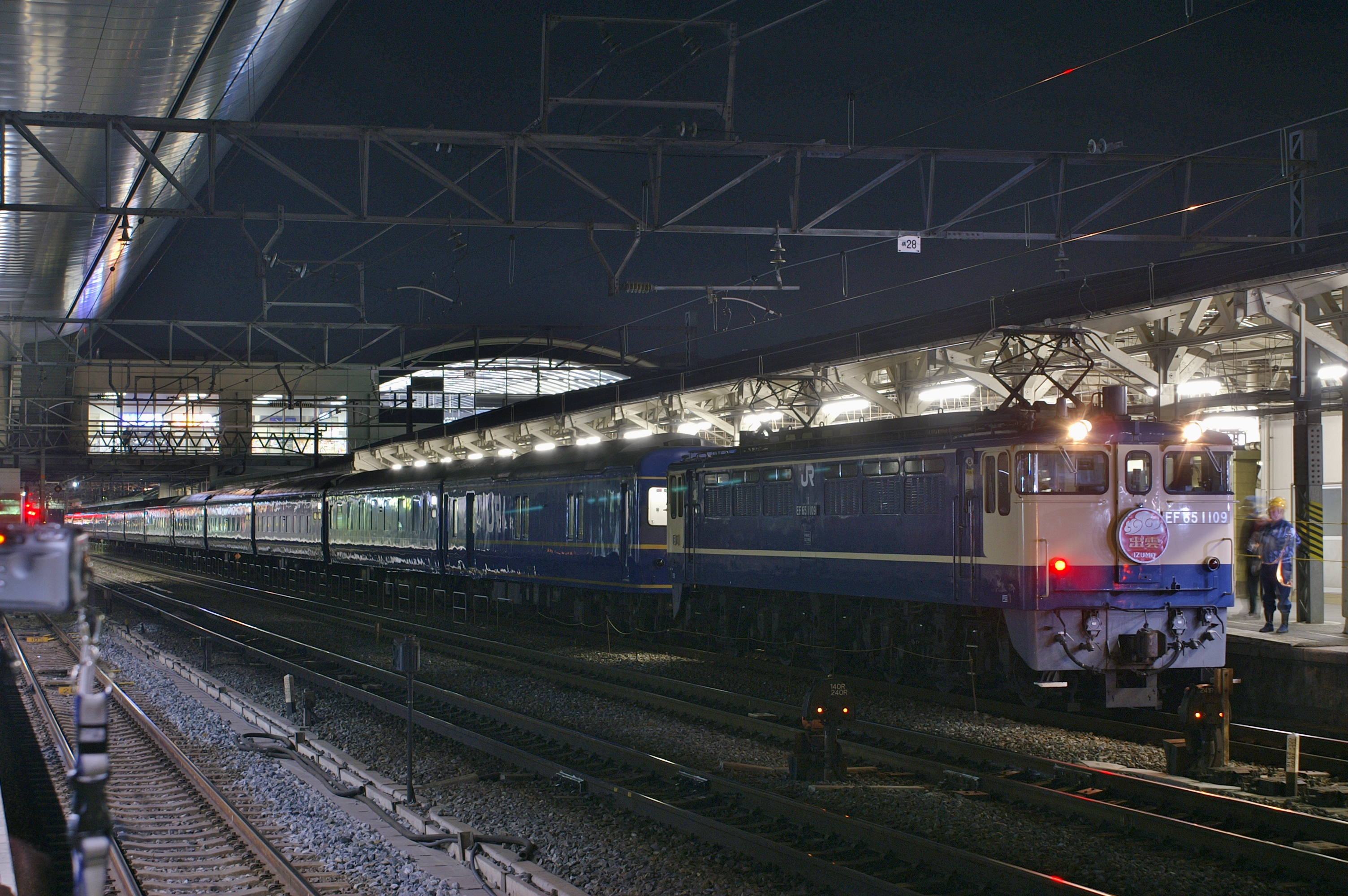 Class EF65-1000 electric locomotive EF65-1109 coupling up to the Izumo sleeping car service at Kyoto Station